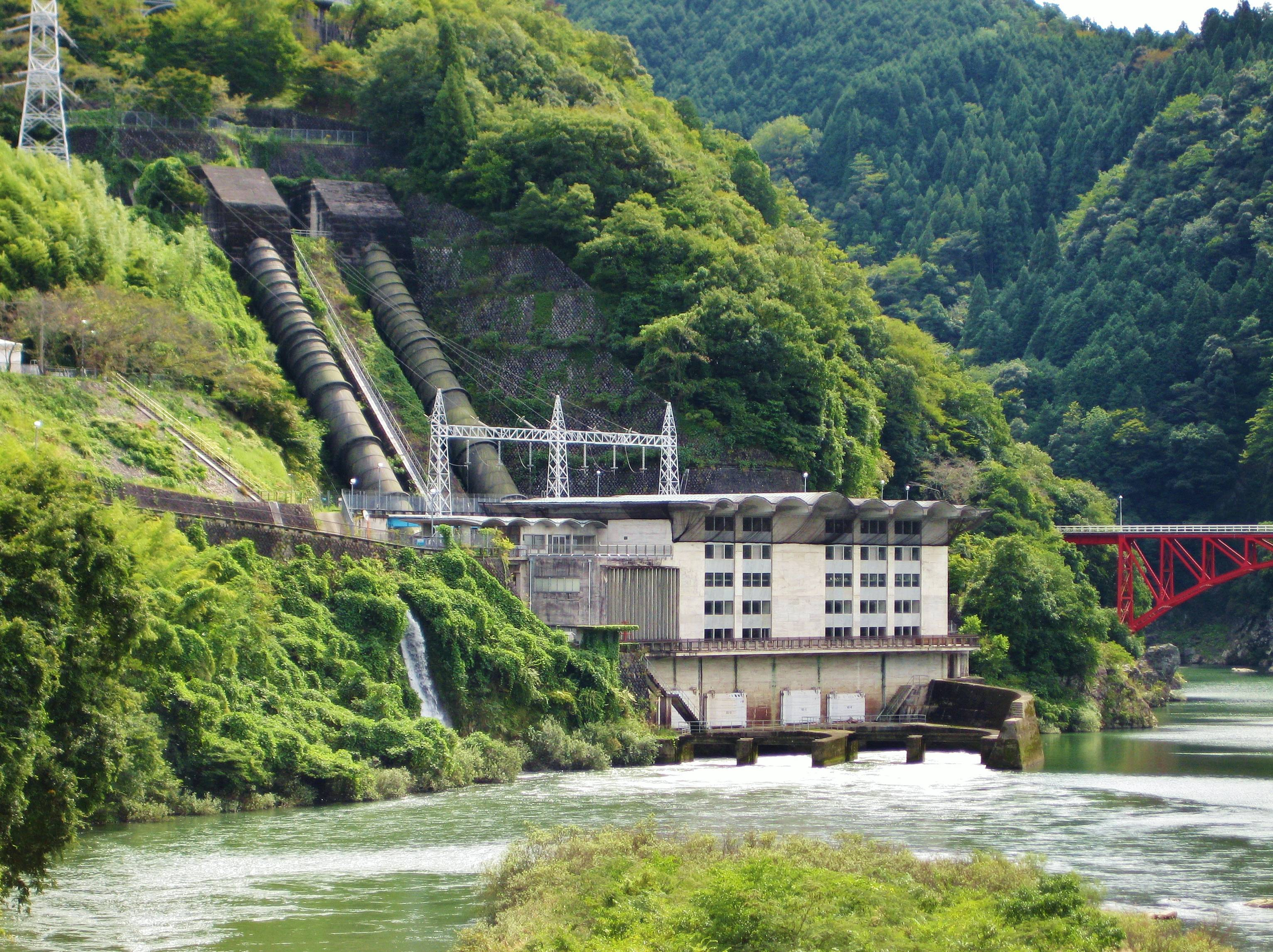 Maruyama Power Station.